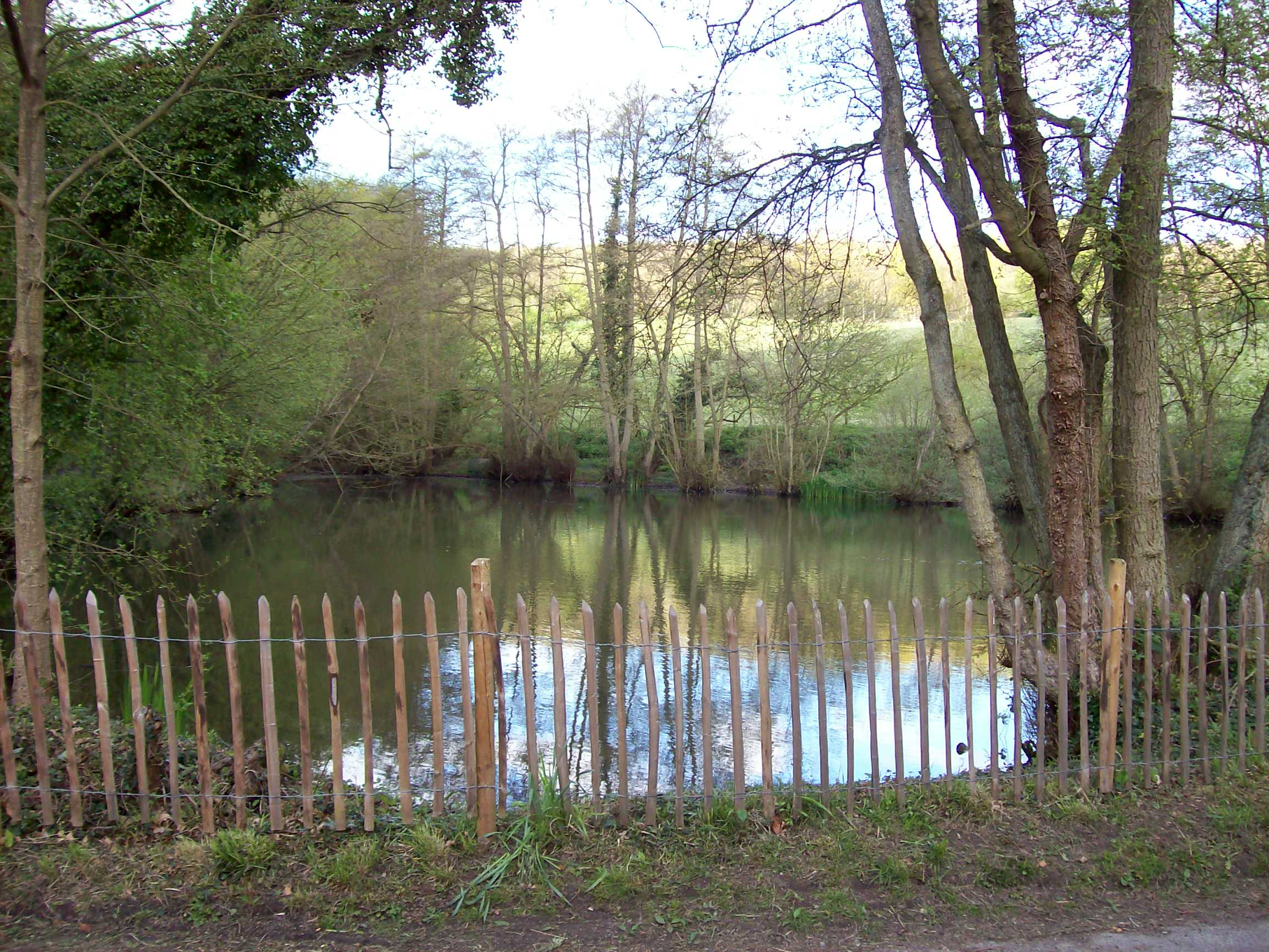 The pond at Swanton Valley, Mereworth - a possible iron foundry site on the Wateringbury stream